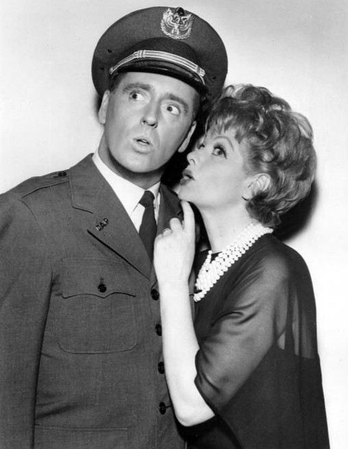 Photo of Dick Martin and Lucille Ball from the television program The Lucy Show. Martin played Harry, Lucy's airline pilot next-door neighbor, in the series.